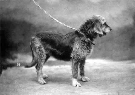 Photograph of an Otterhound taken in 1879.